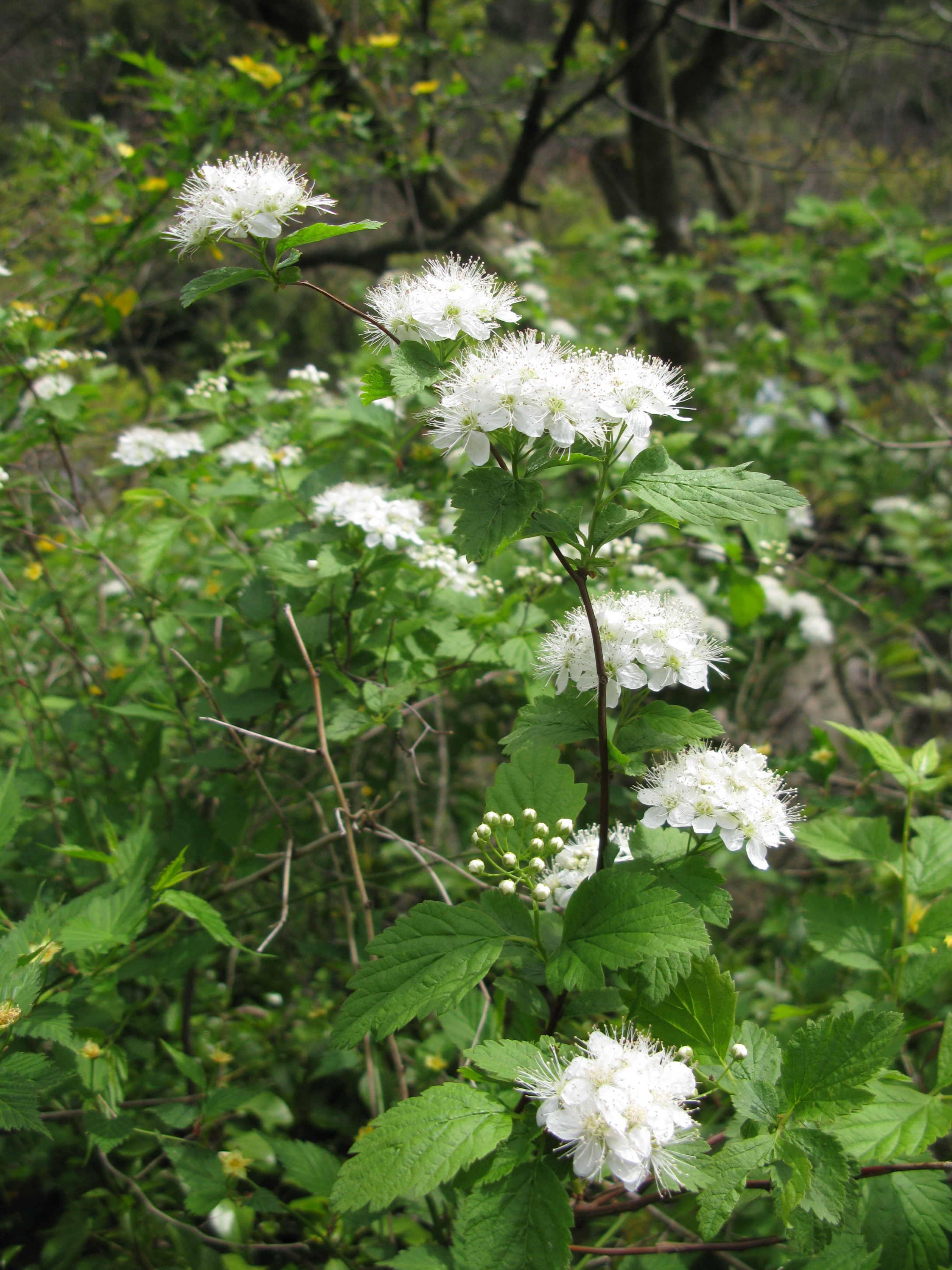 Spiraea chamaedryfolia var. pilosa, Aizu area, Fukushima pref., Japan